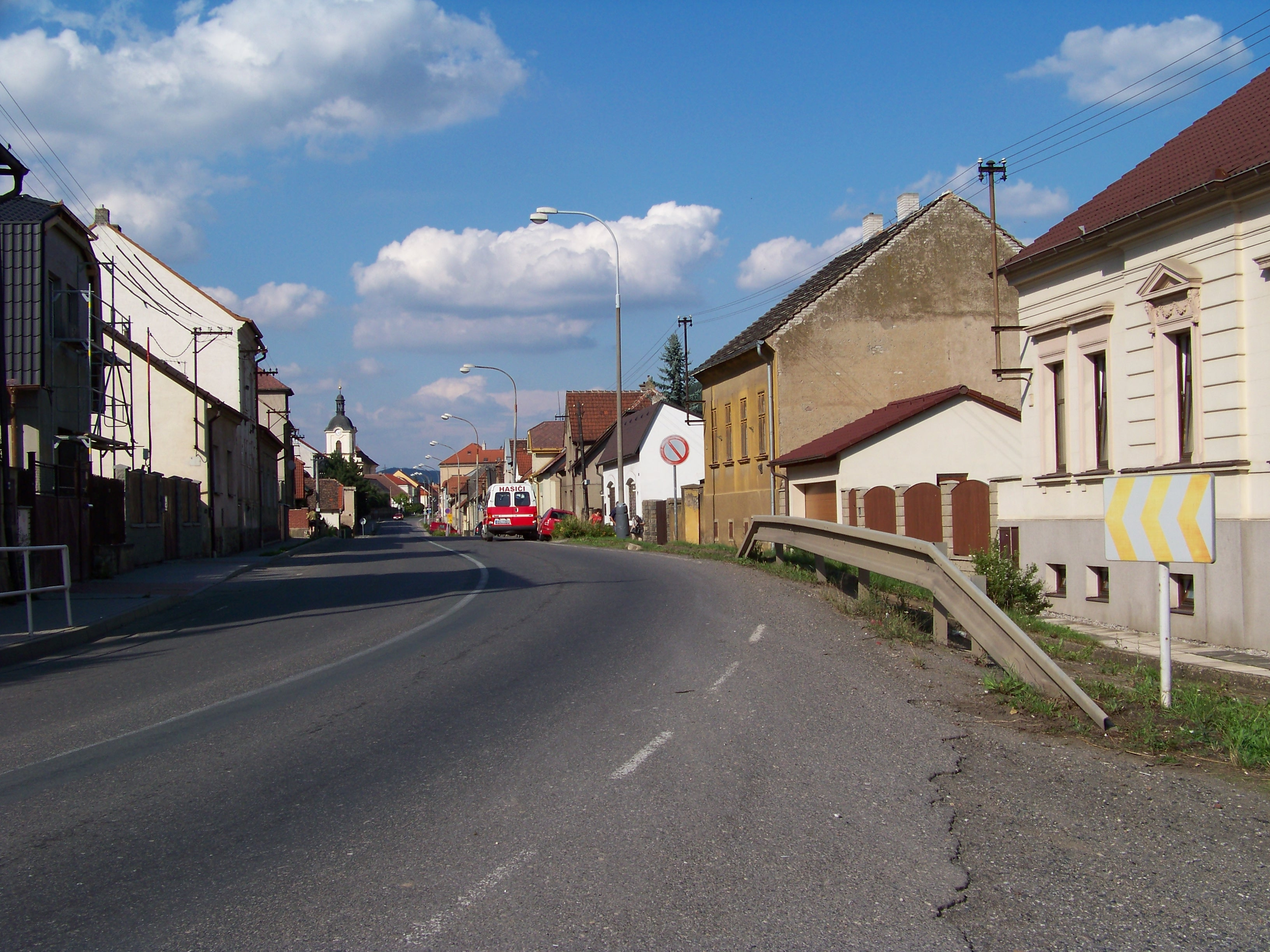 Zdice, Beroun District, Central Bohemian Region, the Czech Republic. Komenského street. - Google Maps - Google Earth